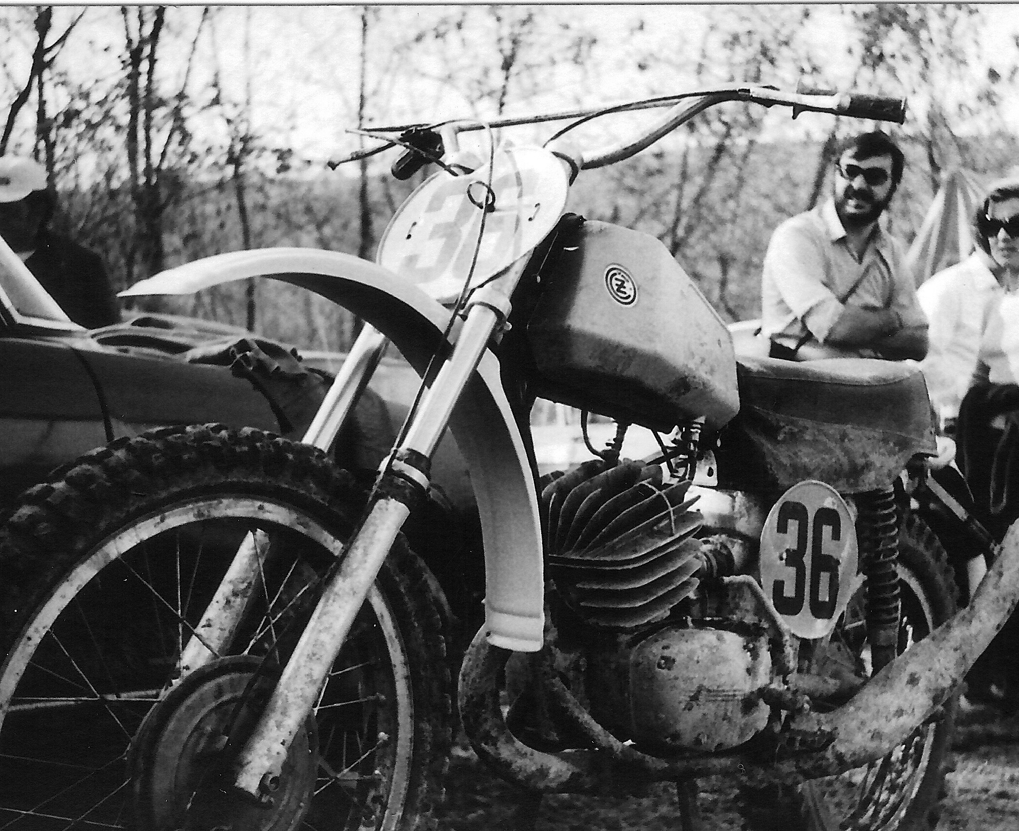 1975, CZ 250 Moto-cross (typ980.5) (Falta Replica) Patterned after the 74 works bikes, the 75 production CZ featured air shocks and an aluminum gas tank held on by a strap. This was as close to the works bikes as this CZ got. The Husqvarna's and Maico's of 1975 were much closer to what those factories raced than the CZ. I can't remember seeing many Falta replicas being raced in 1975, the downturn had started. 1970s Campionato Italiano Motocross classe 500 Casale Monferrato